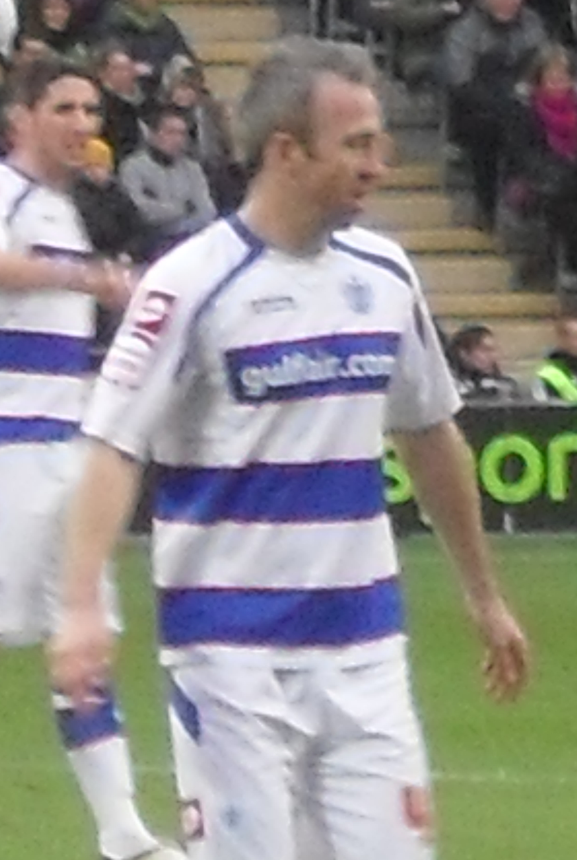 Shaun Derry